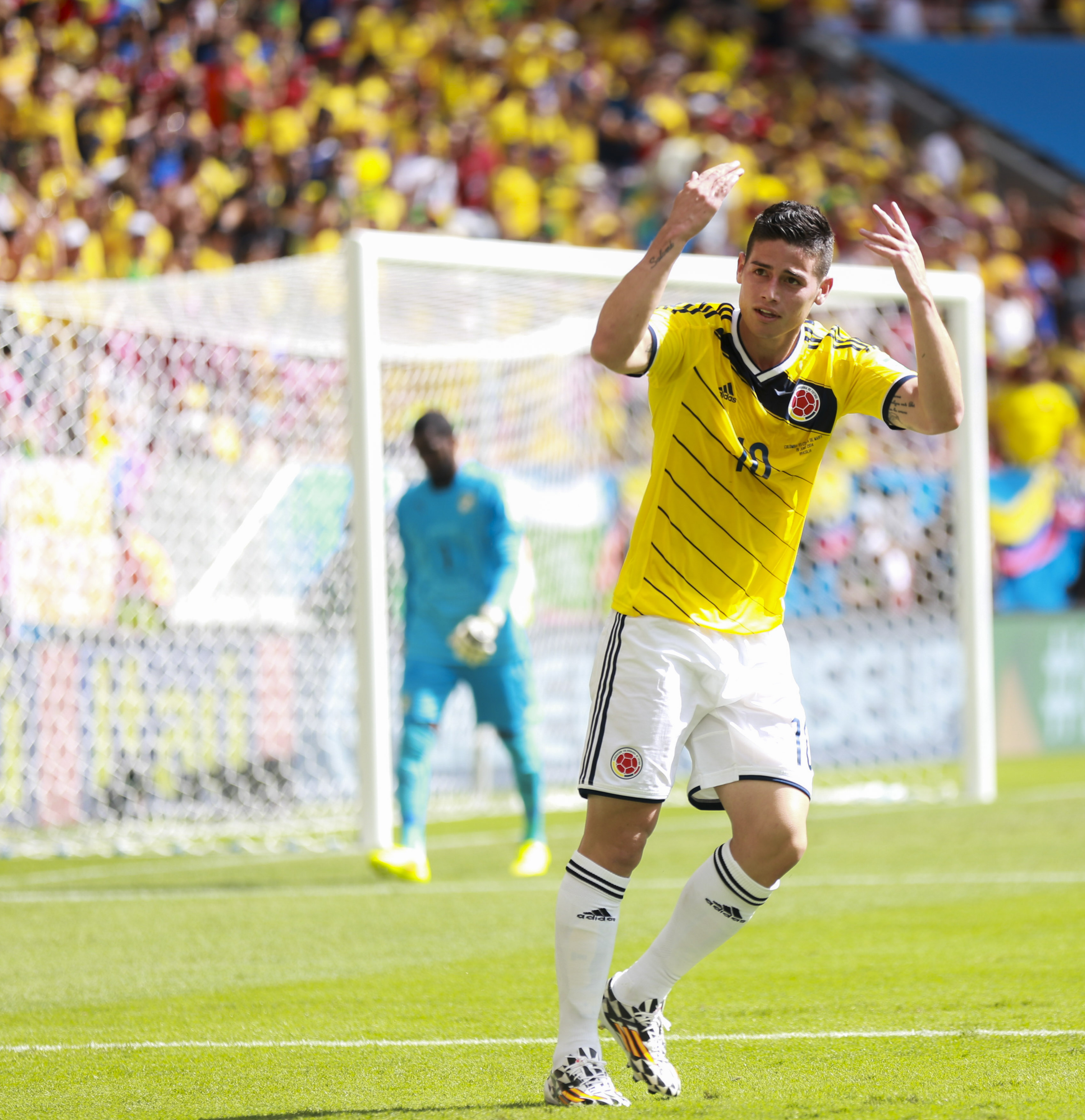 James Rodriguez during the game Colombia Paraguay for the eliminatory 2013